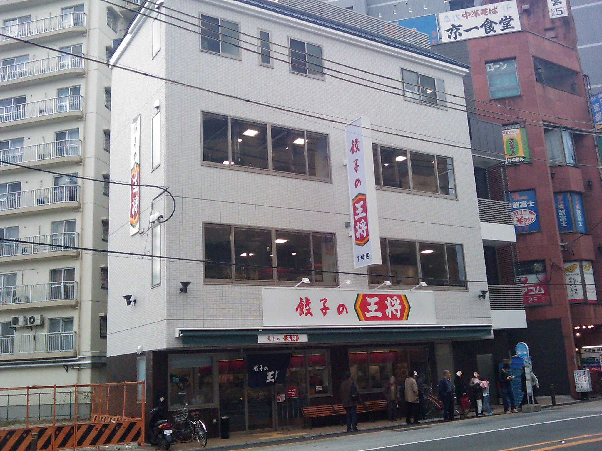 Gyoza―No―Ohsho Shijyo-Omiya shop